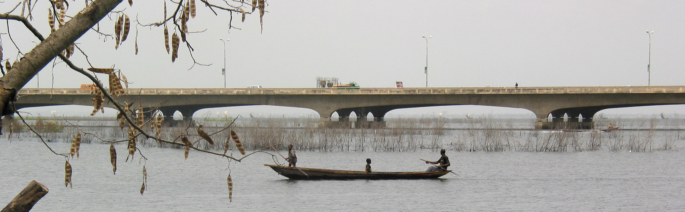 The Third Mainland Bridge in Nigeria, one of three bridges from Lagos Island to the mainland